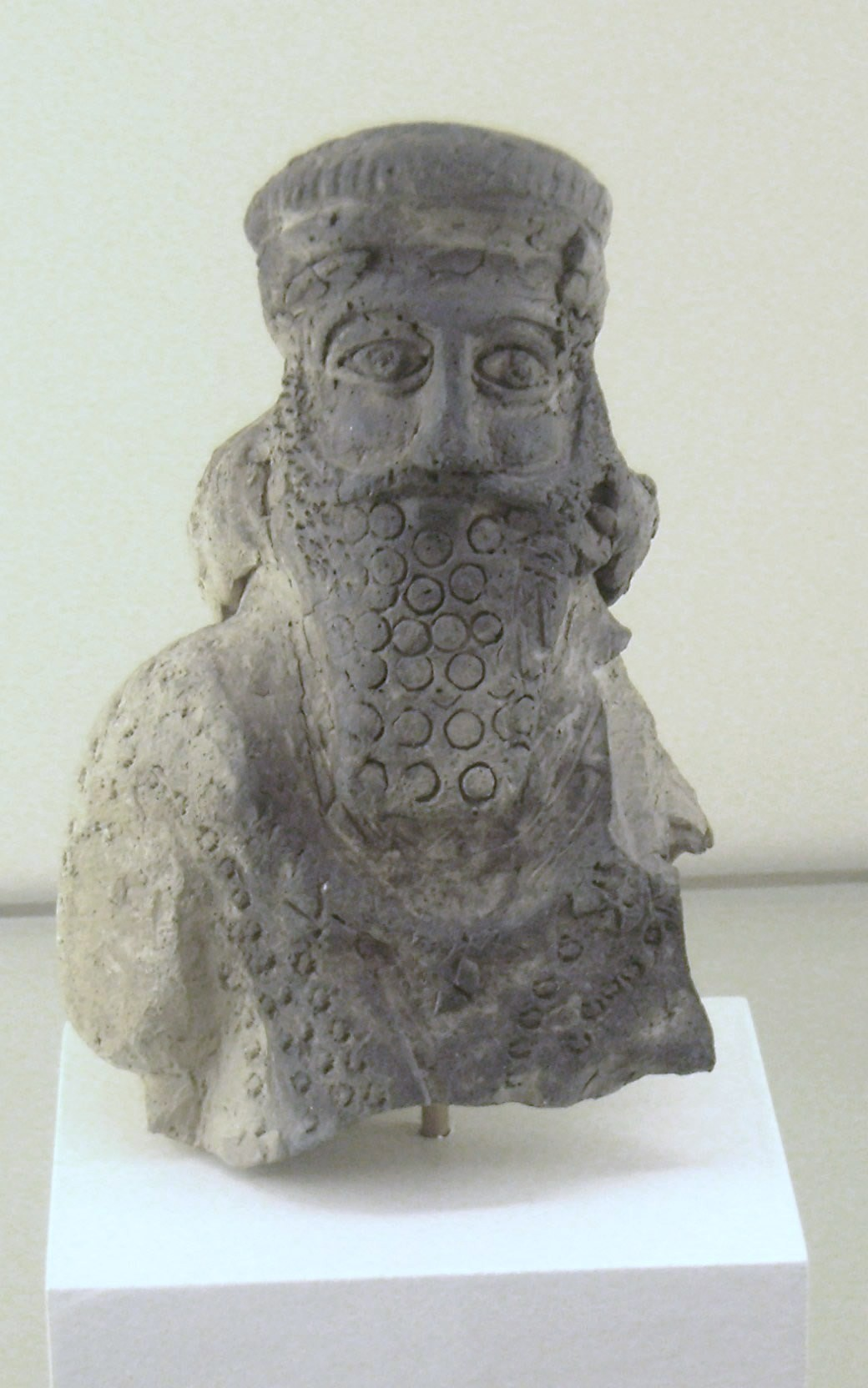 Terracotta figure of Parthian king, found at Assur; Berlin, Pergamon Museum